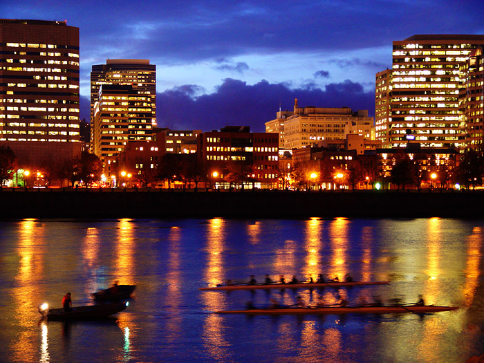 Rowing on the Willamette River, Portland, Oregon